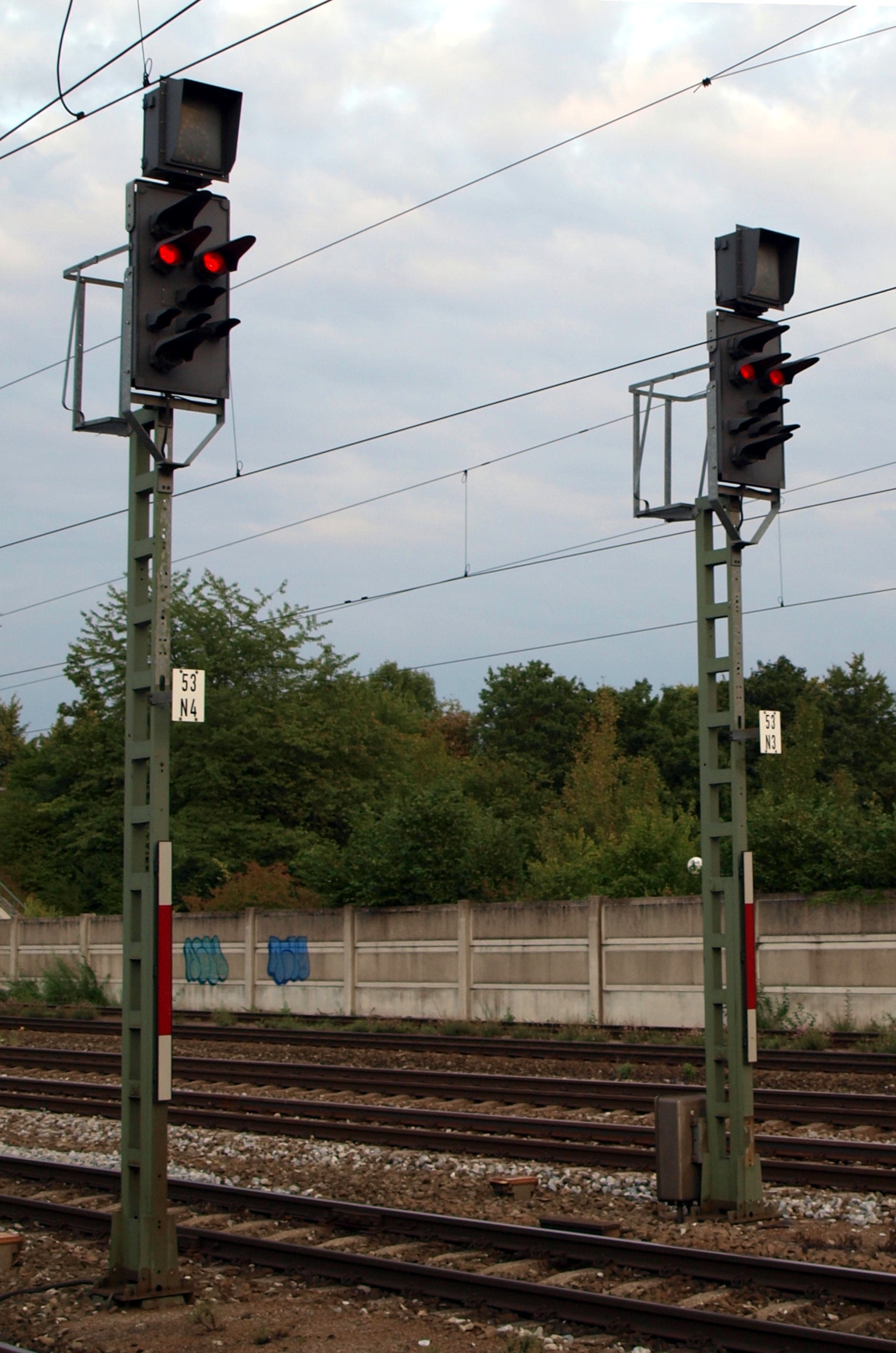 German railway signals (Hp system)